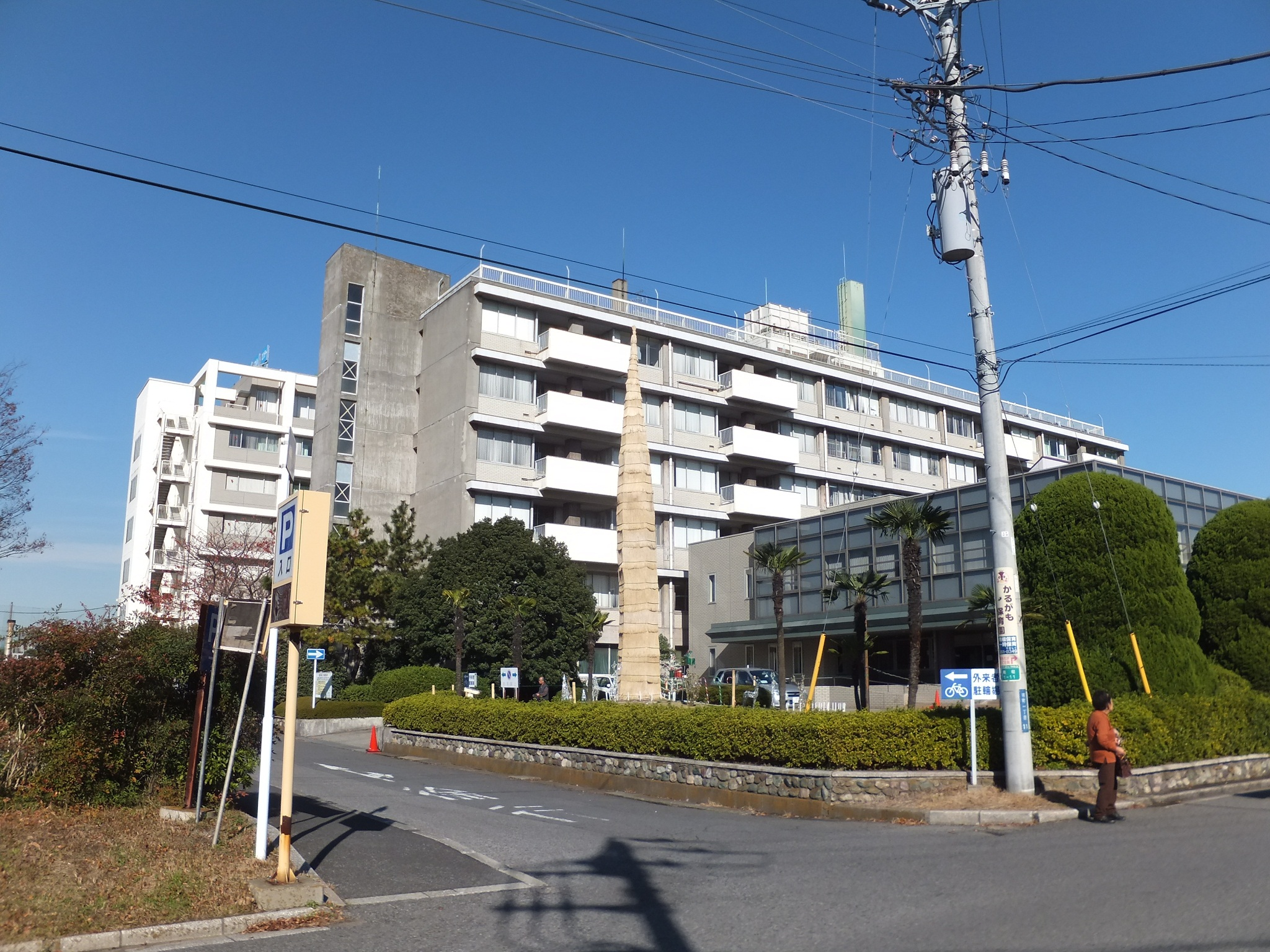 Seikei-kai Chiba Medical Center is a hospital in Chiba city, Japan. It was formerly named 'JFE Kawatetsu Chiba Hospital'.